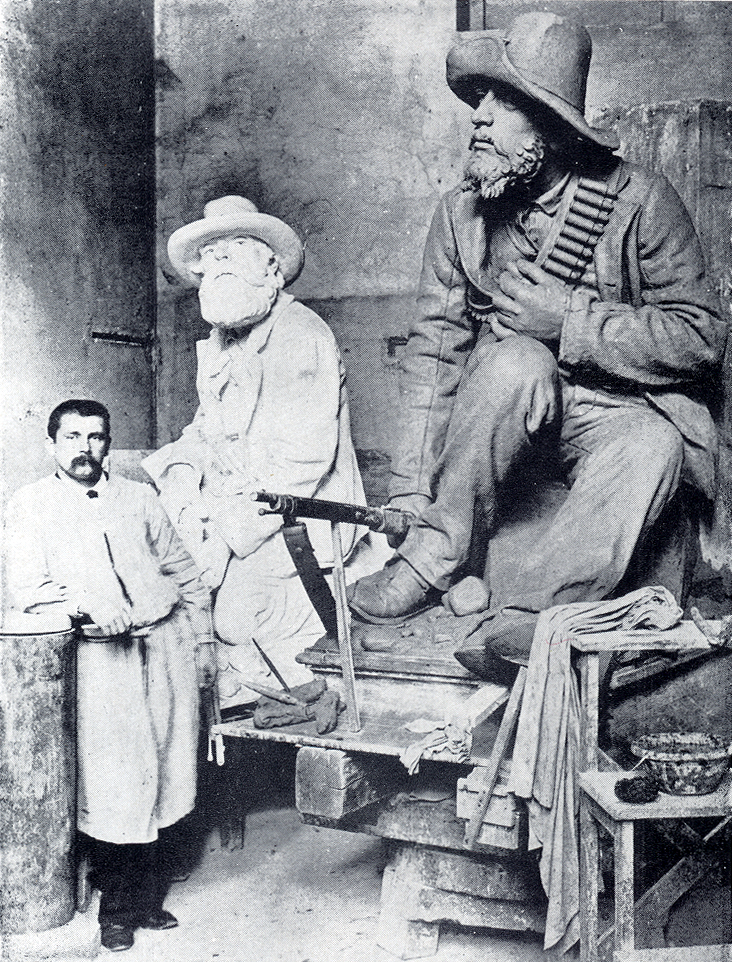 South African sculptor Anton van Wouw, in Rome with two of the pieces that formed part of the Kruger Statue, today situated on Kerkplein, Pretoria, South Africa.